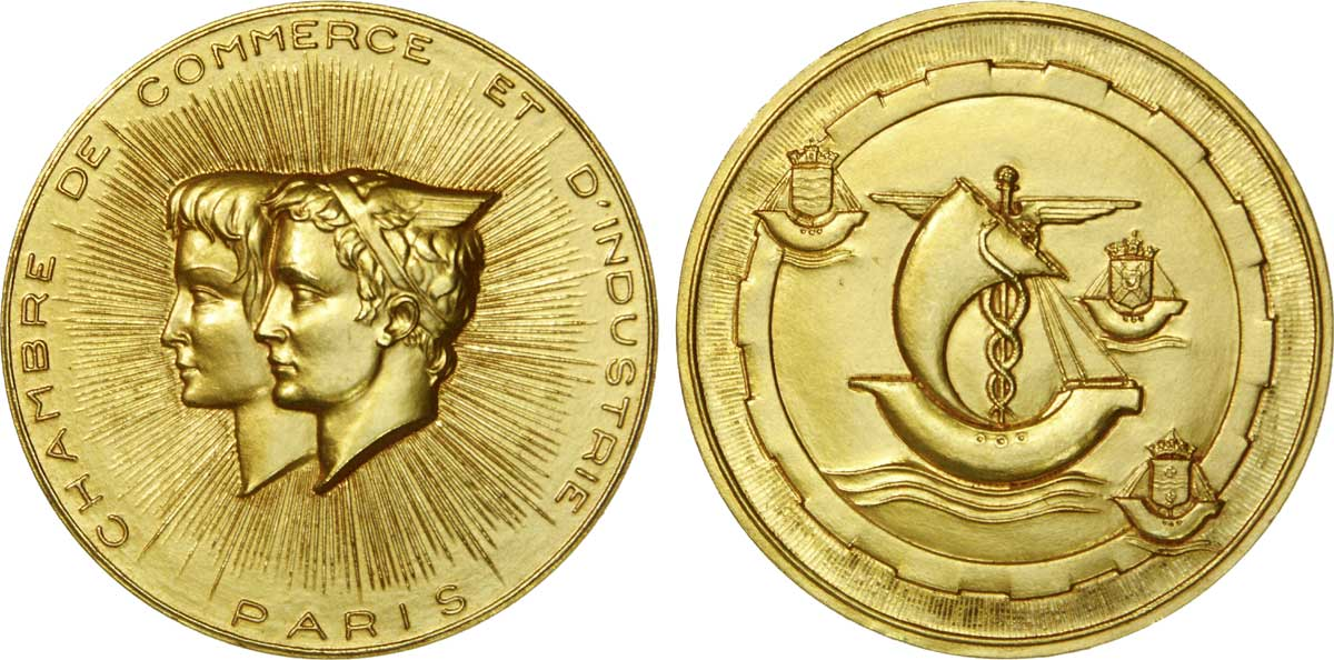 Chambre de Commerce de Paris, or frappé en 1970 Description avers : Allégories du Commerce et de l'industrie sur un fond de rayons . Description revers : Navire de Paris dont le mât est fait d'un caducée. Trois petits navires armoriés dans le champ entourés d'une roue dentée .